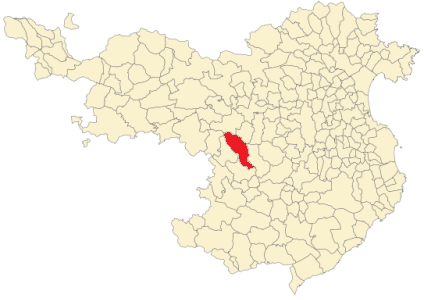 Sant Aniol de Finestres